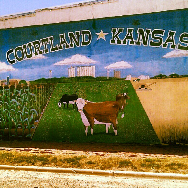 Mural on main street in Courtland, Kansas.